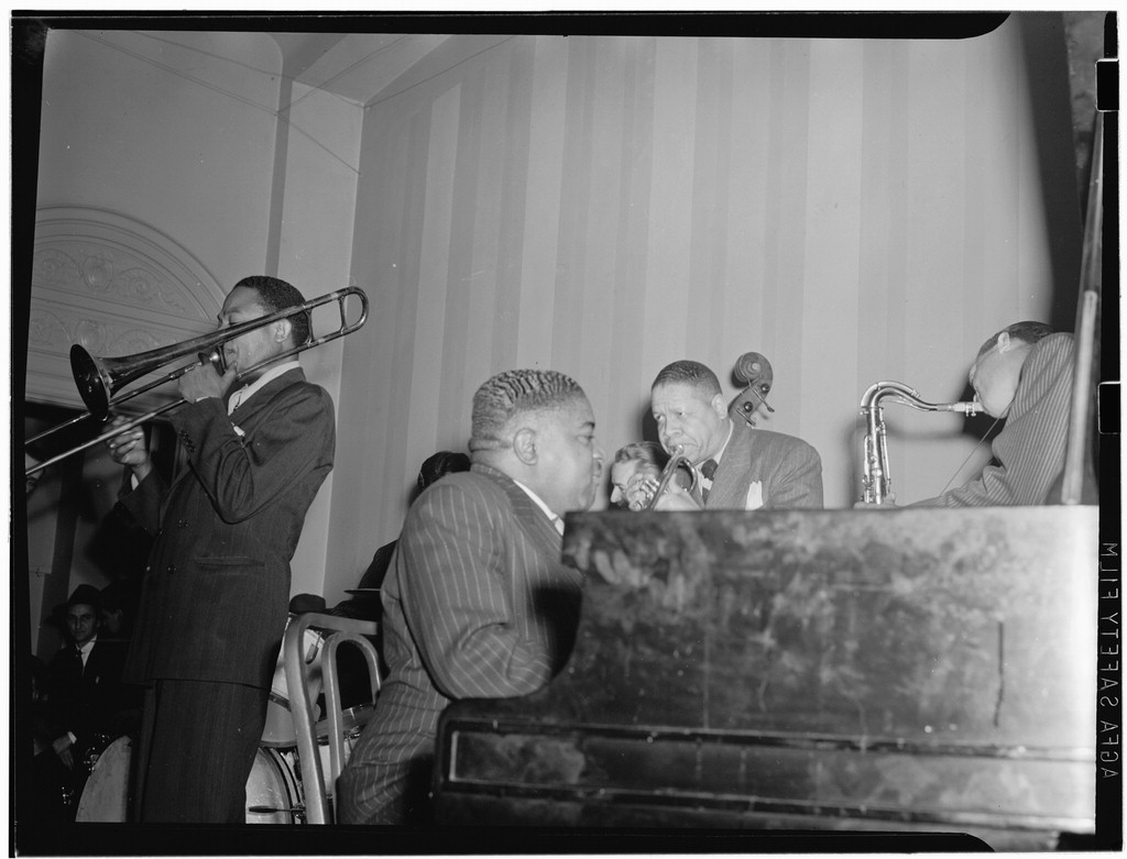 Jay Higginbotham, Pete Johnson, Henry Red Allen, and Lester Young, National Press Club, Washington, D.C.